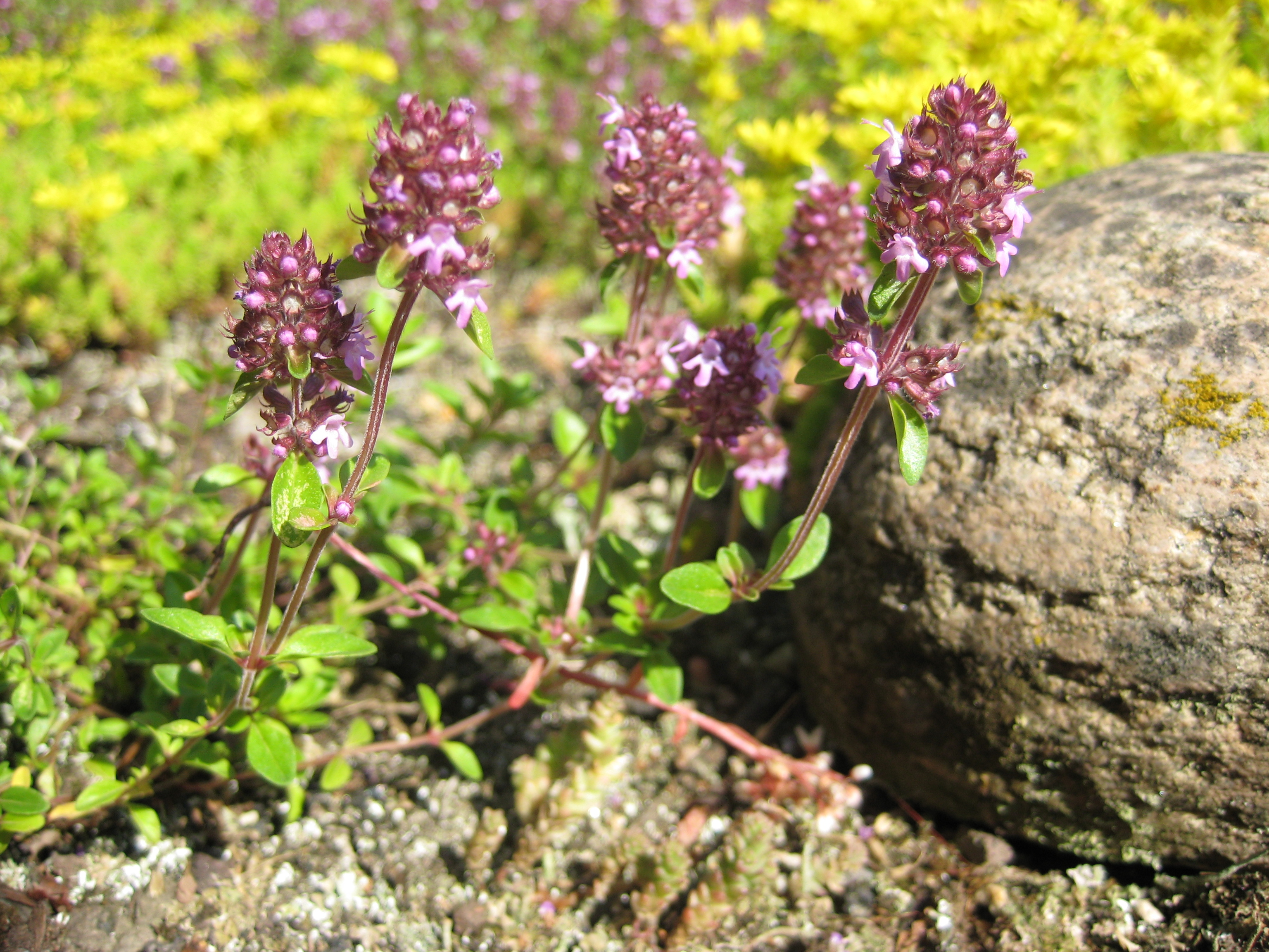 Thymus pulegioides